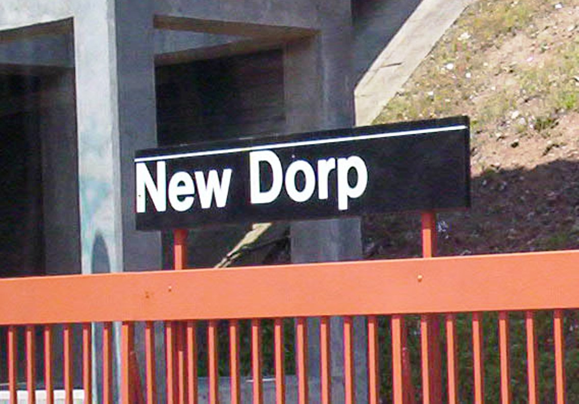 Sign at New Dorp station, Staten Island, New York